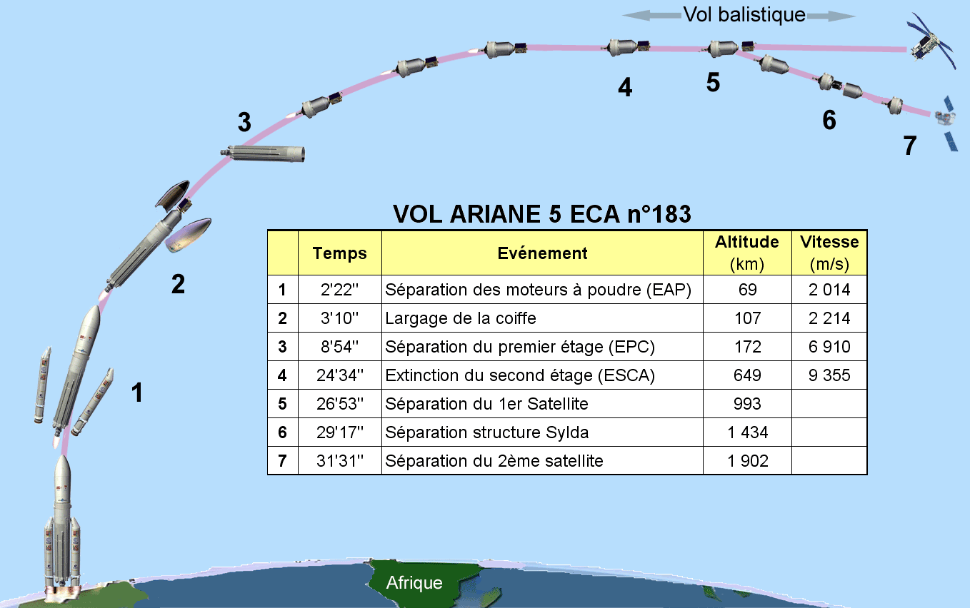 Diagram of a launch of Ariane 5 ECA